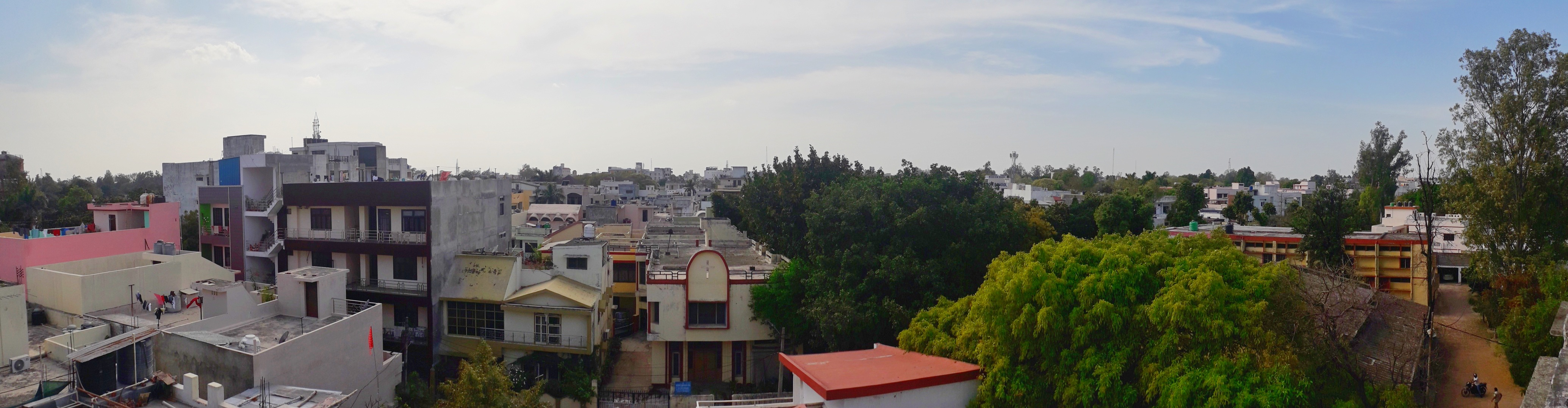 panorama of residential area of civil lines bareilly